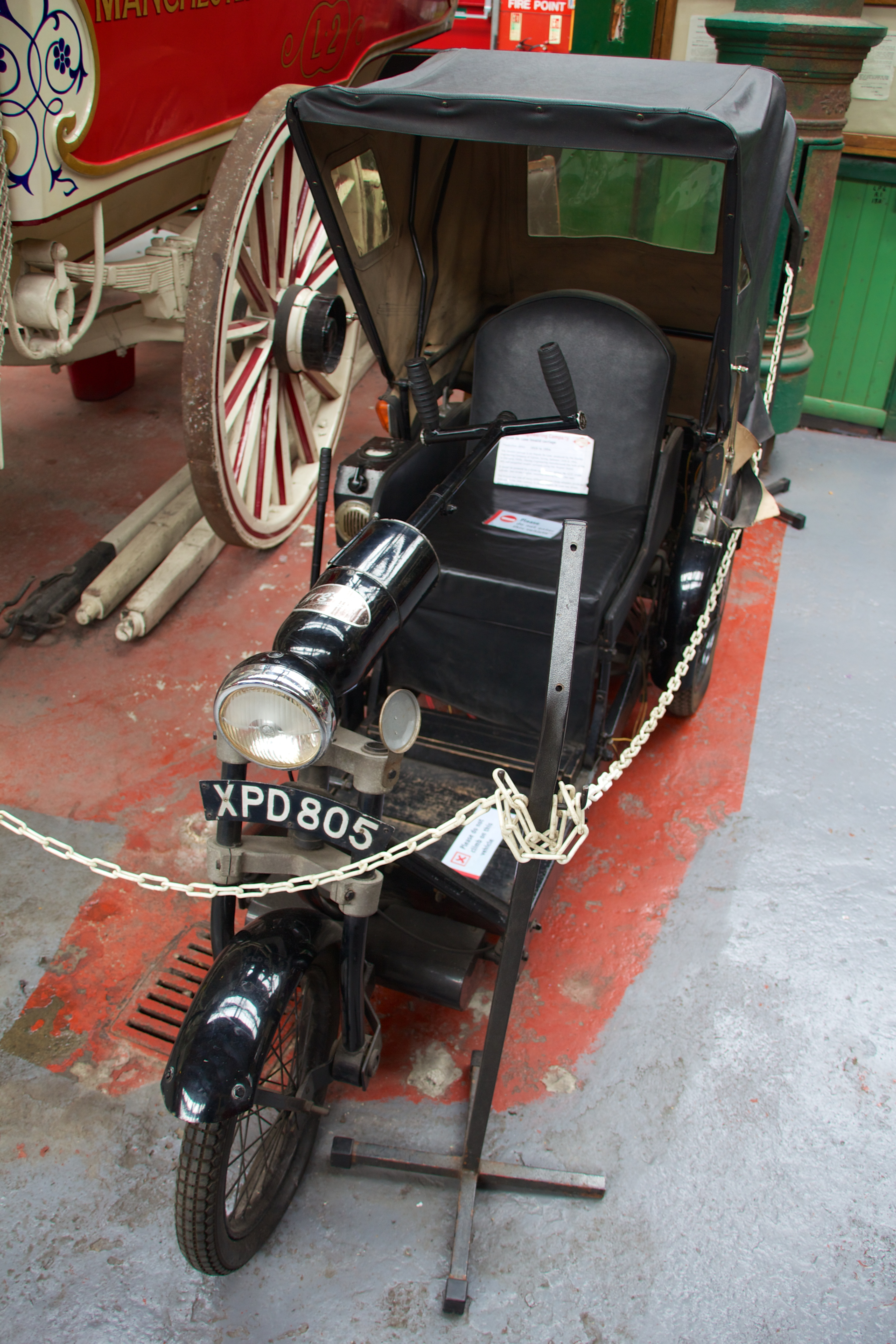 Stanley Engineering Company Argson De Luxe invalid carriage (produced between 1926 and 1954). XPD 805. At the Museum of Transport, Greater Manchester.